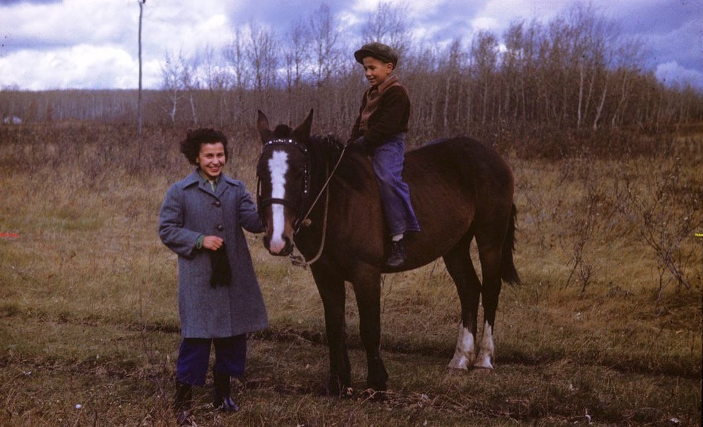 'Helen Jeffries & Dave Robertson' ~ (Cree) ~ Onion Lake, Sask 1946